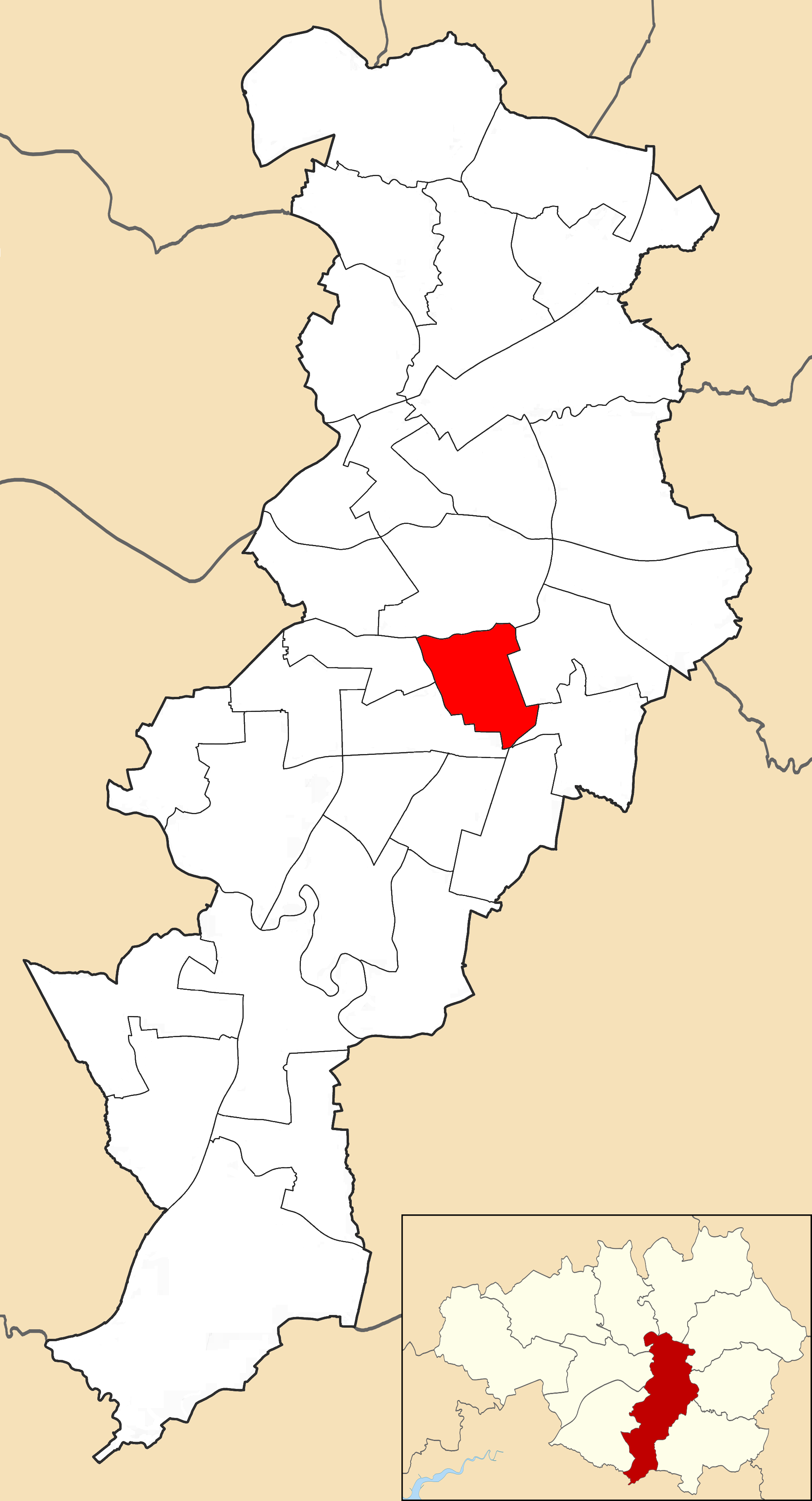 Map showing location of Rusholme ward within Manchester City Council.